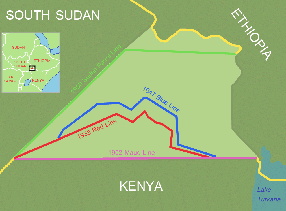 Ilemi triangle (light area), disputed area between Ethiopia, Sudan and Kenya Red line = established by joint Kenya-Sudan survey team in 1938 as a temporary measure. (also known as wakefield line) Blue line = established by Britain’s Foreign Office in 1947 Sudanese Patrol Line = unilaterally established by Sudan in 1950. (Yellow line is country boundaries) Reference and further information: DELIMITATION OF THE ELASTIC ILEMI TRIANGLE: PASTORAL CONFLICTS AND OFFICIAL INDIFFERENCE IN THE HORN OF AFRICA See also: satellite image